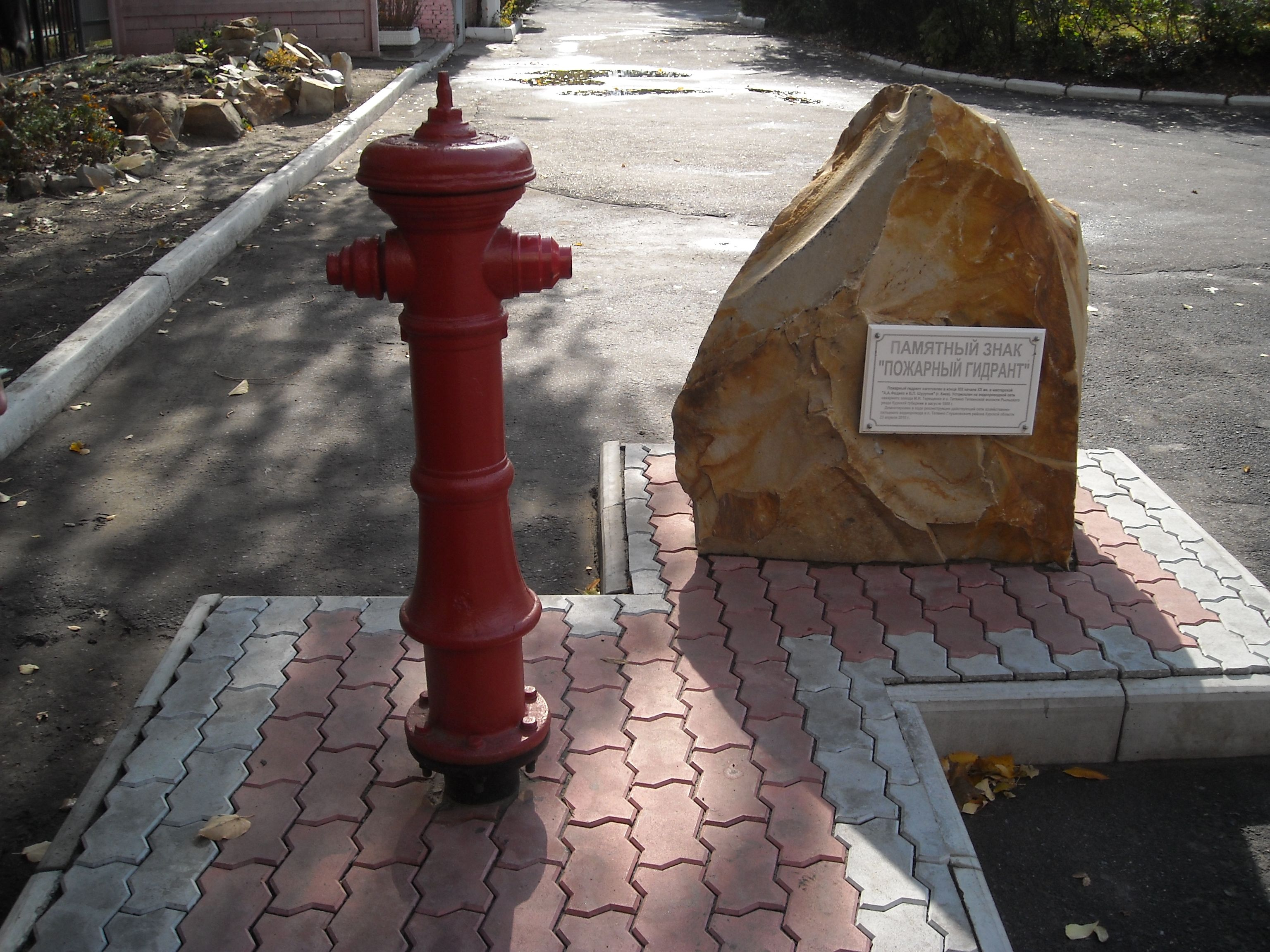 Monument to fire Hydrant in Kursk